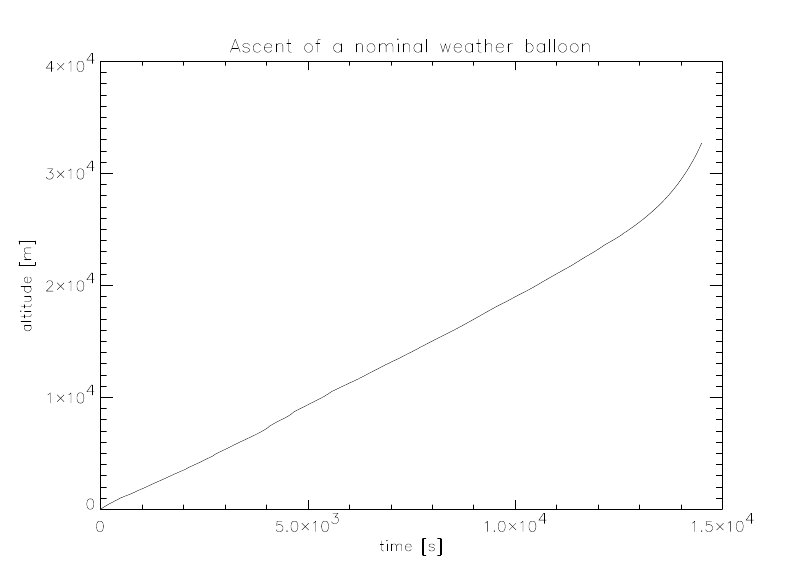 Ascent rate of a weather balloon launched from the Polarstern research vessel. Reference: Peter Mills (2004) "Following the Vapour Trail: a Study of Chaotic Mixing of Water Vapour in the Upper Troposphere." Master's Thesis, University of Bremen.